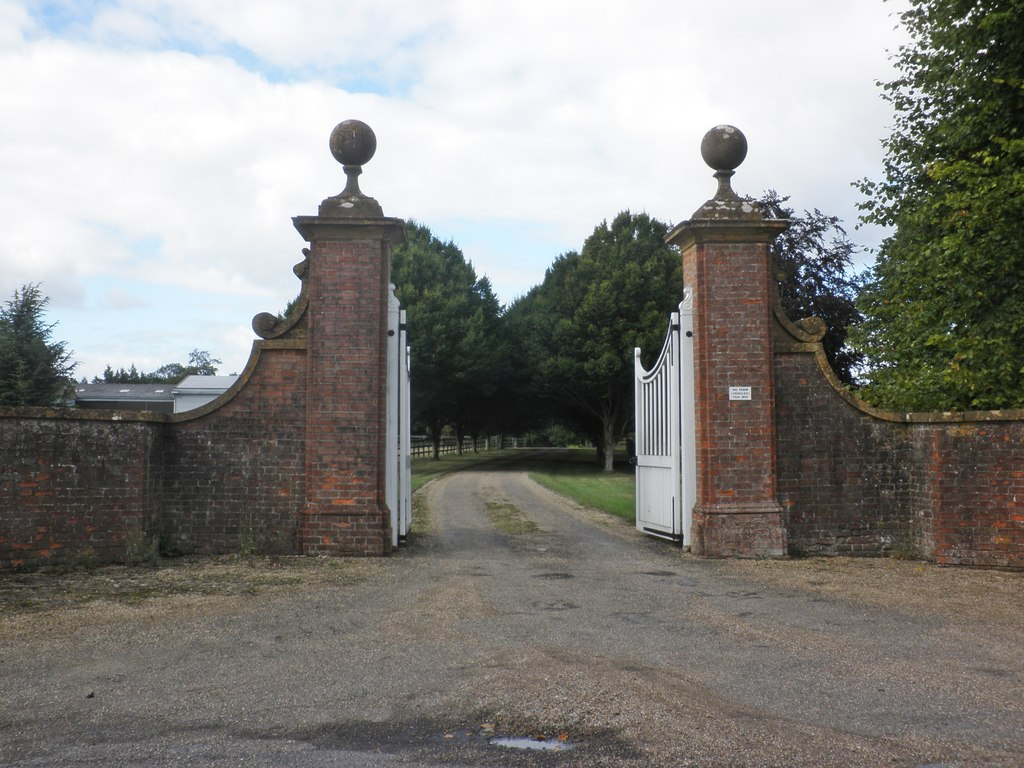 Entrance gateway, Burton Pynsent